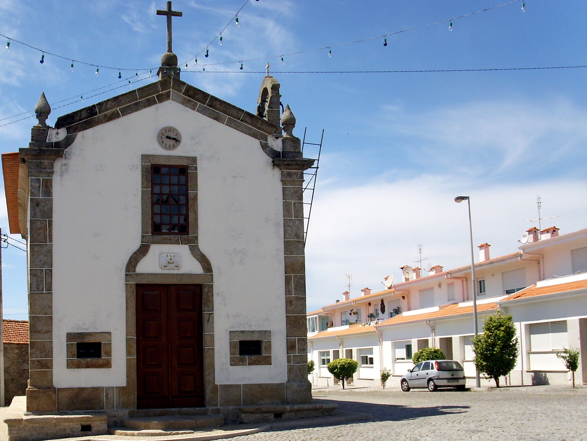 Belém Chapel of Giesteira neighbourhood, formerly an ancient village.